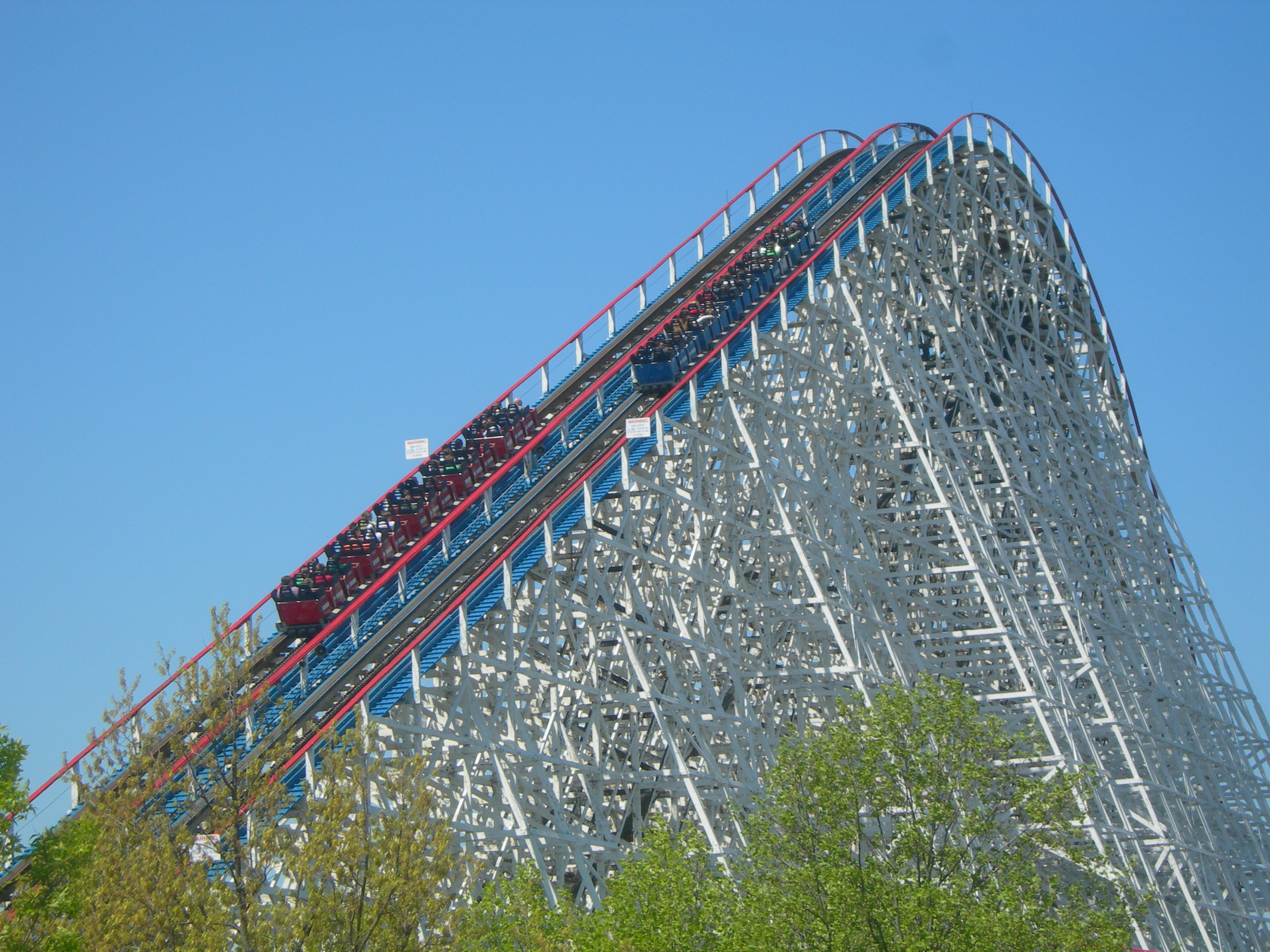 American Eagle (roller coaster) , montagnes russes à Six Flags Great America